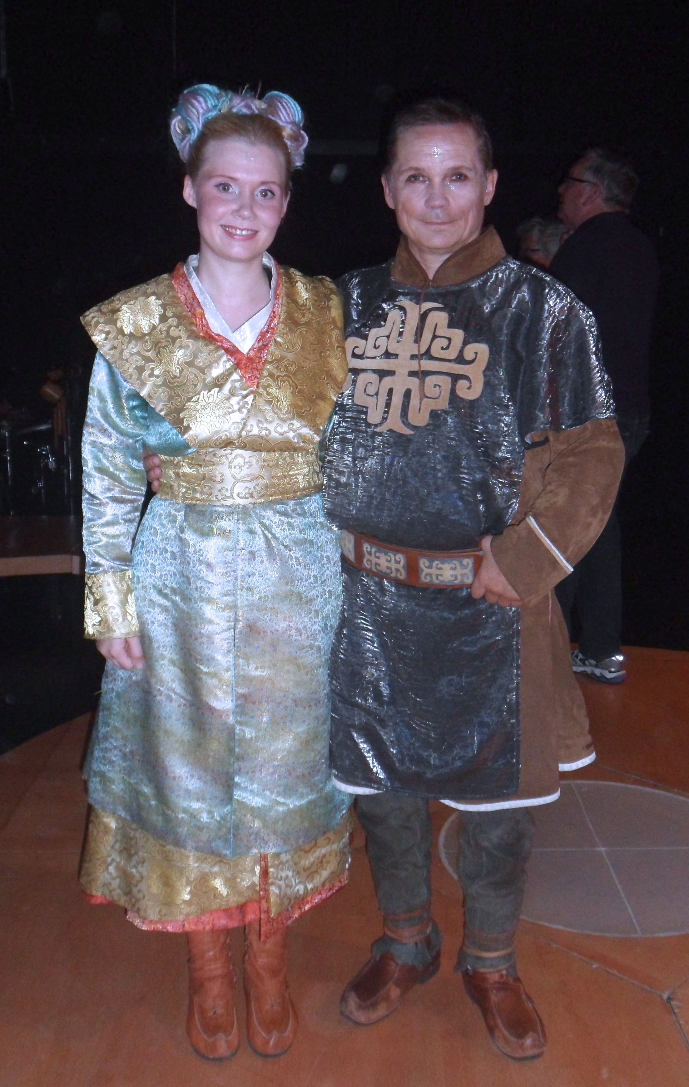 Two actors (Inga-Máret Gaup-Juuso on the left, Iŋgor Ántte Áilu Gaup 'Áilloš' on the right) from Nils Aslak Valkeapää's play The Frost Haired and The Dream-seer performed by the Beaivváš Sami National Theatre in Helsinki, Finland on September 6th, 2013. Costumes by Berit Marit Hætta